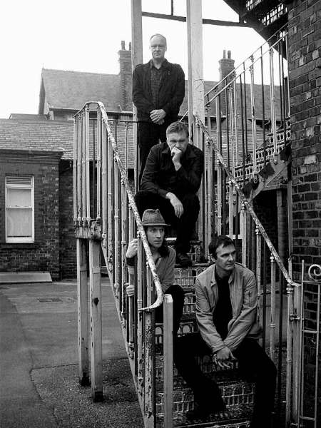 Factory Star Oct '09